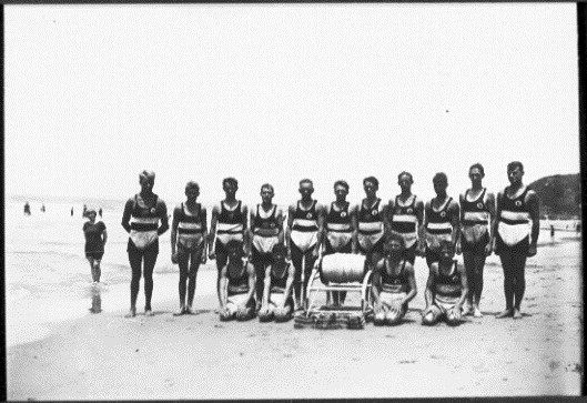 This group photograph captures 15 male life savers in uniform, four of which are kneeling alongside a rope reel. A young woman in a neck-to-knee bathing costume stands watching at the edge of the surf. This image is part of a collection of photos by Harry Brisbane Williams. The Williams photographic collection provides an interesting record of a range of activities on Sydney Harbour from the 1890s into the 1920s. An enthusiastic amateur boater and photographer, Williams’ photographs capture a range of subjects – pleasure cruising on his motor launch on the Lane Cove River, yachting on Sydney Harbour, foreshore social activities, surf lifesaving, cargo ships, battle cruisers of the United States fleet, model yachting and the shipbuilding industry. In particular, they are a wonderful personal record of the new phenomenon of leisure motor boating in the early twentieth century. The ANMM undertakes research and accepts public comments that enhance the information we hold about images in our collection. This record has been updated accordingly. Object number: 00017040